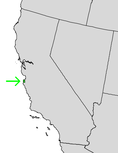 Range map of Cupressus macrocarpa